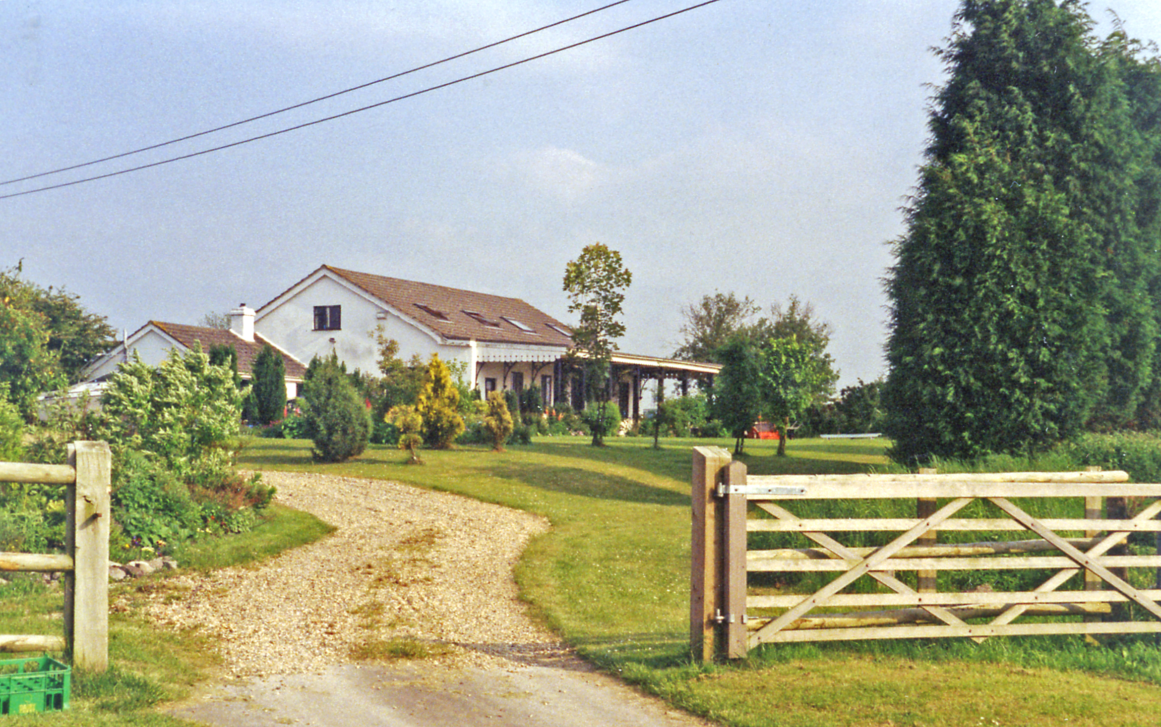 Former Grafton & Burbage station, 1994. View SE, towards Ludgershall - Andover Junction: ex-M&SWJR Cheltenham - Swindon Town - Marlborough - Andover Junction secondary main line. The station and line both closed completely (except Ludgershall - Andover Junction) from 11/9/61; the station has been converted to a very nice house and garden.